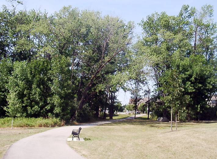 Grove of trees found in Berczy Village, Markham, Ontario, Canada.